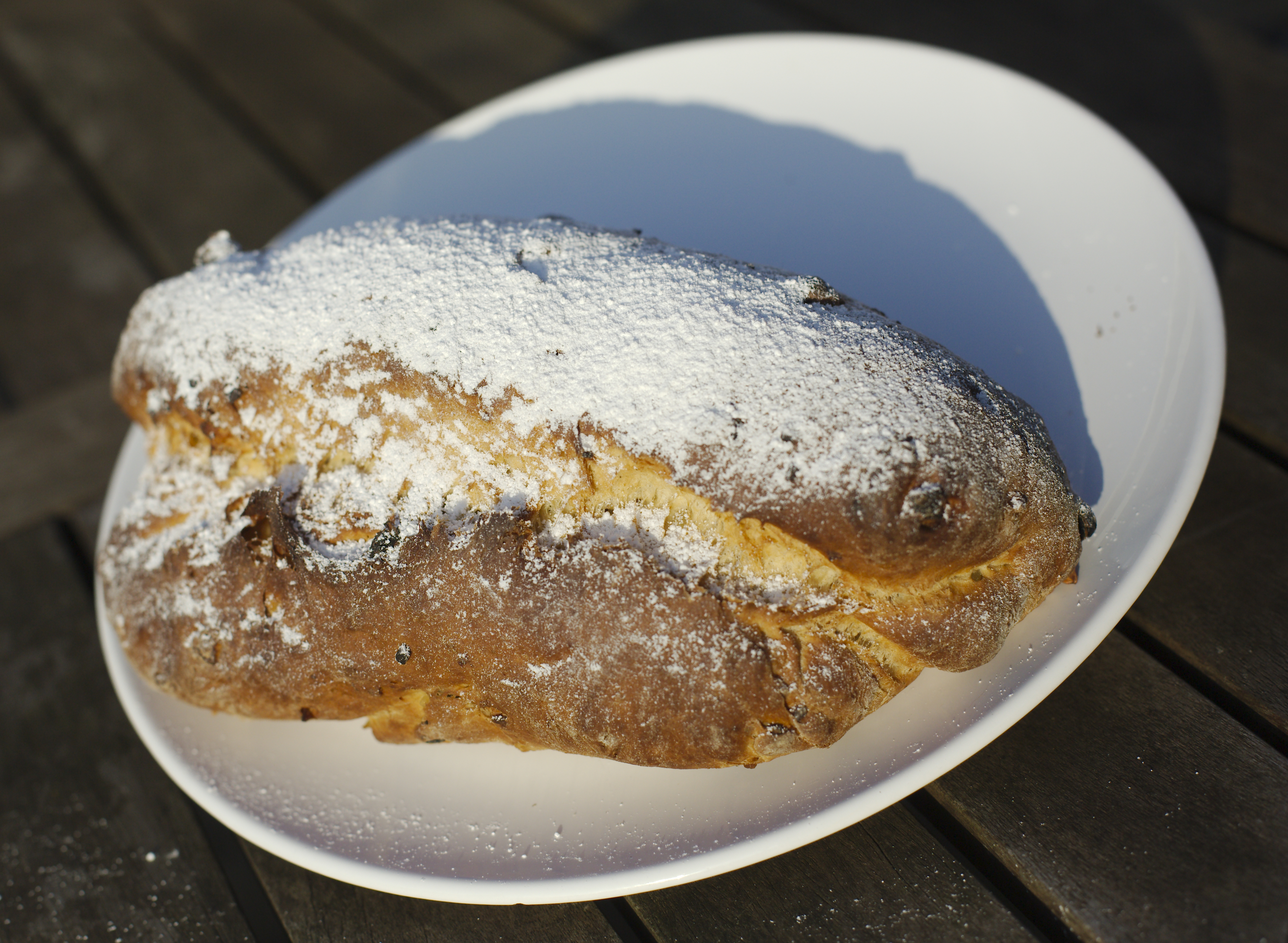 Kløben a Danish bread inspired by the German Stollen